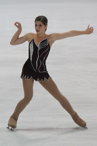 Miriam Ziegler at the 2009 Nebelhorn Trophy.